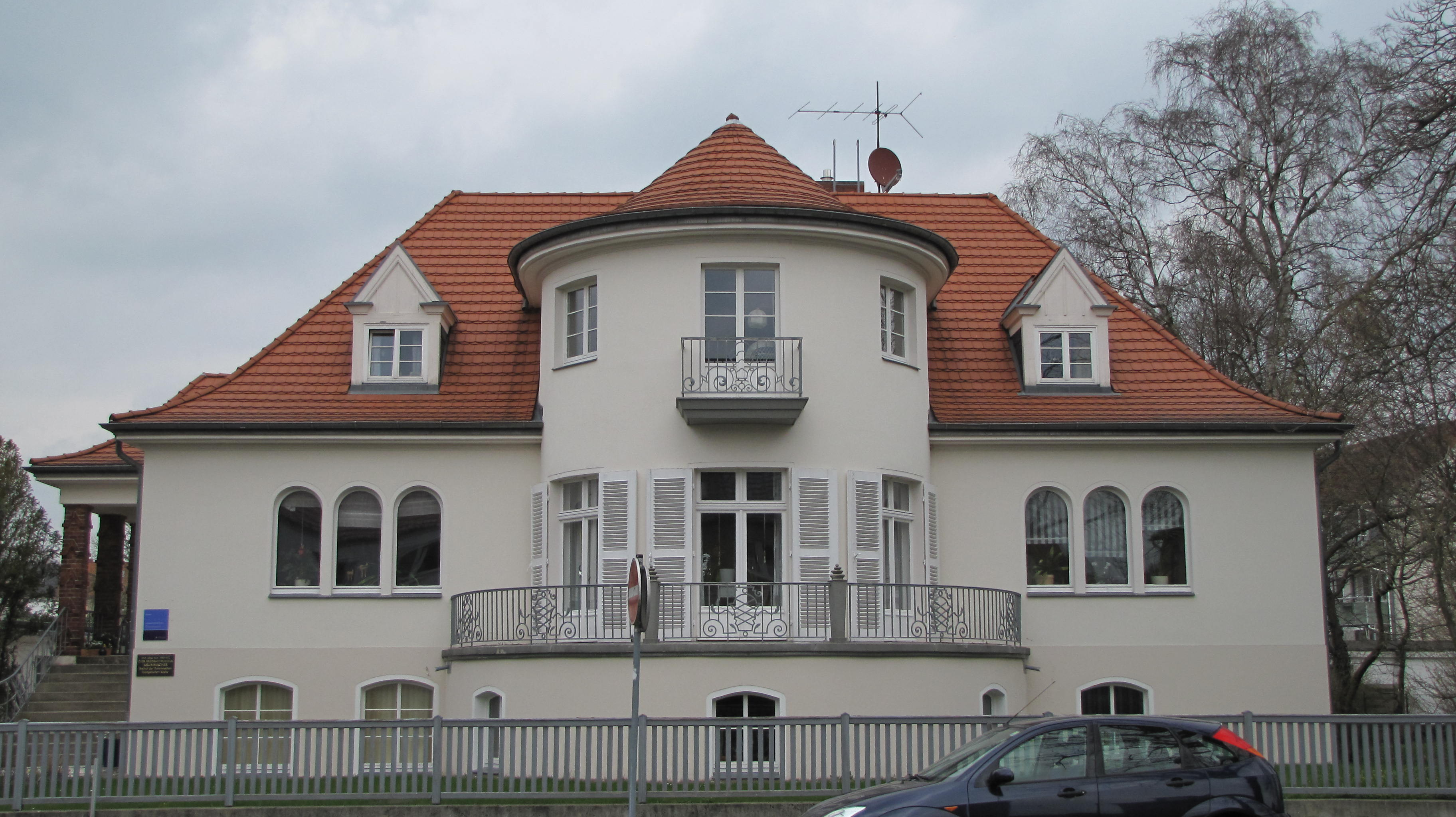 Bishop's office and former official residence, Rudolf-Petershagen-Allee 3, Greifswald